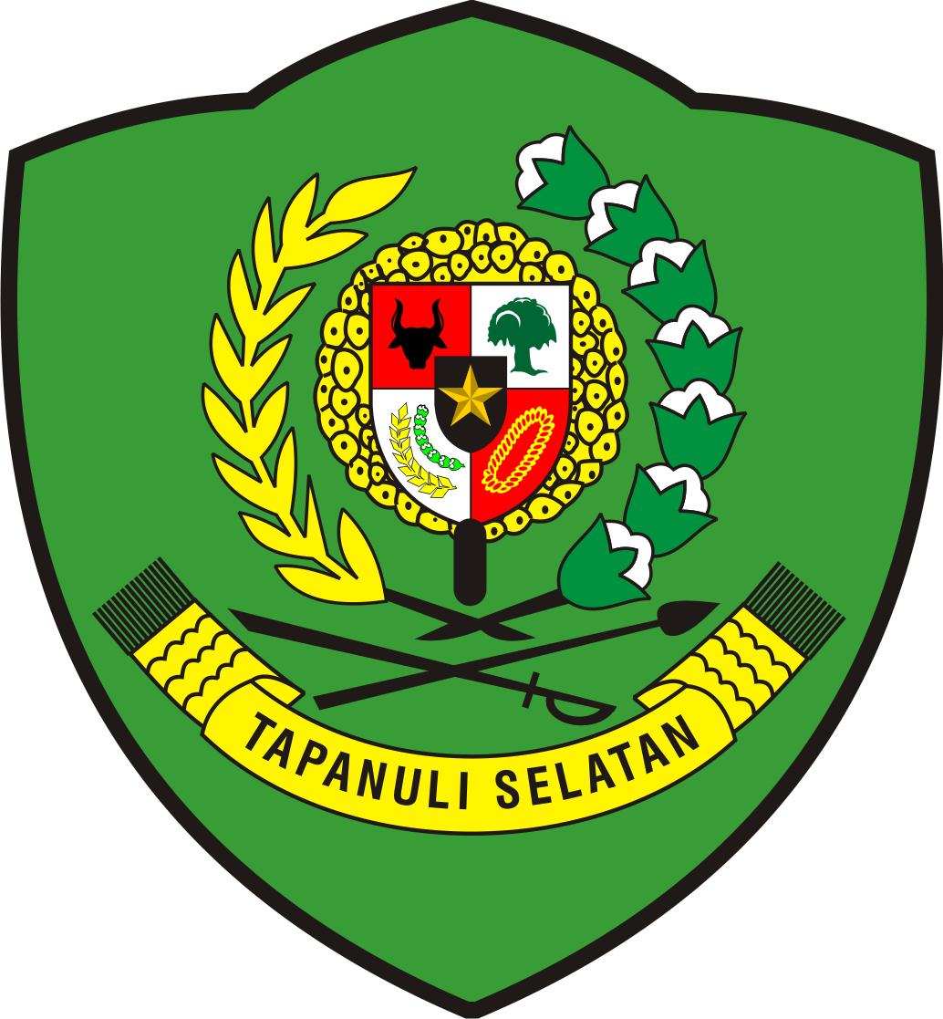 Lambang (Coat of Arms) of Kabupaten (Regency) Tapanuli Selatan (South Tapanuli), Provinsi Sumatera Utara (North Sumatra Province), Indonesia